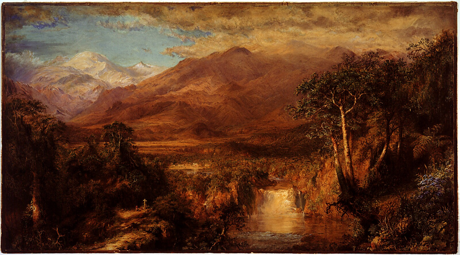 likely made as a reference for engraving in England